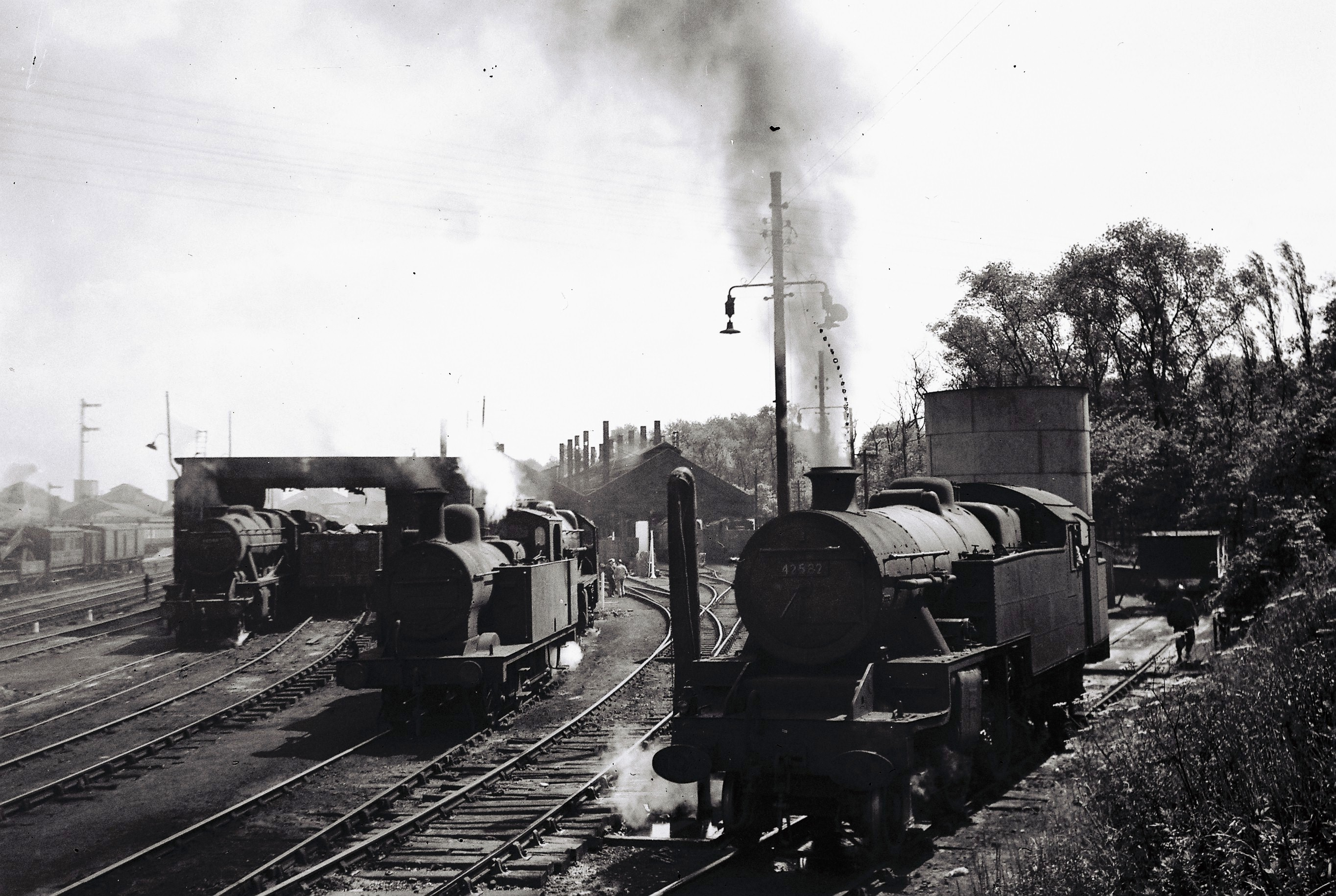 Locomotive yard at Bletchley railway station with 2-6-4T 42582 in the foreground.